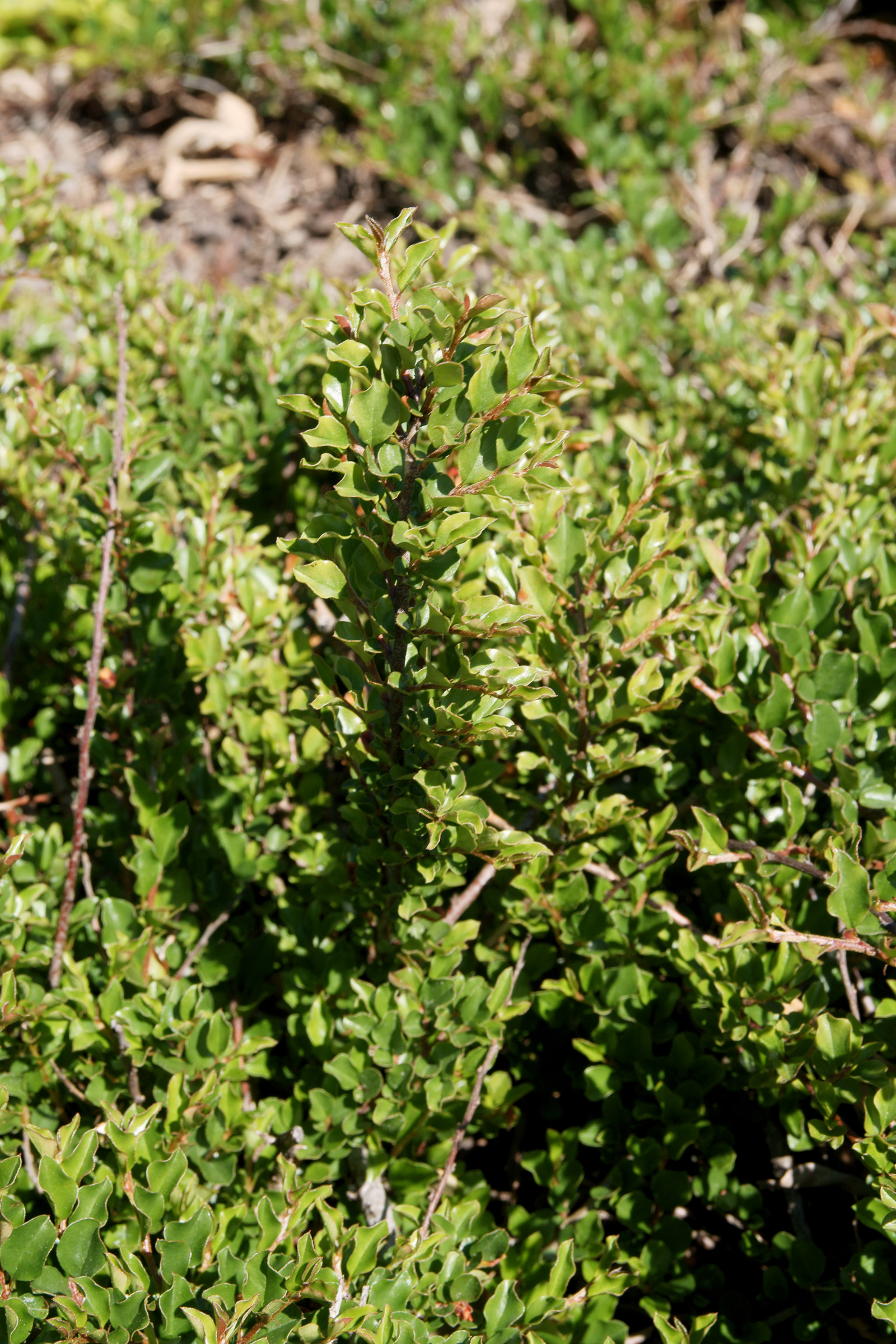 Creeping cotoneaster (Cotoneaster adpressus) at exhibition garden of Hanhiluoto, Pori.